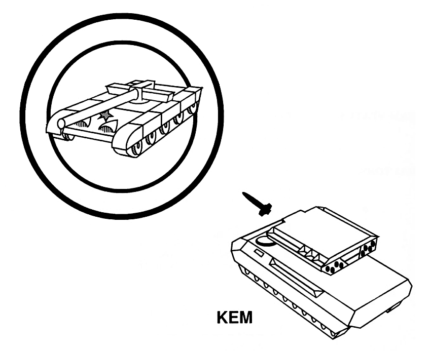 KEM concept.